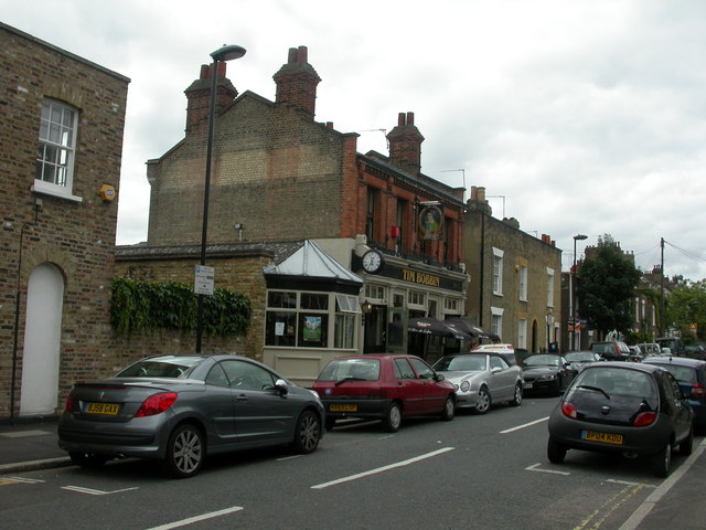 Clapham, Tim Bobbin Pub in Lillieshall Road. Internally, U-shaped bar, drinking areas on three sides, dining room at back, darts. Named after an C18 dialect poet from Lancashire. For some customer reviews